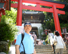 James Zumwalt, Charge d'Affaires, visited to the Enoshima Shrine in Fujisawa City, Kanagawa Prefecture in 2009.